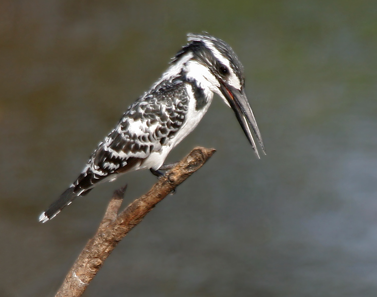 Pied Kingfisher Ceryle rudis at Lotus Pond, Hyderabad, India.